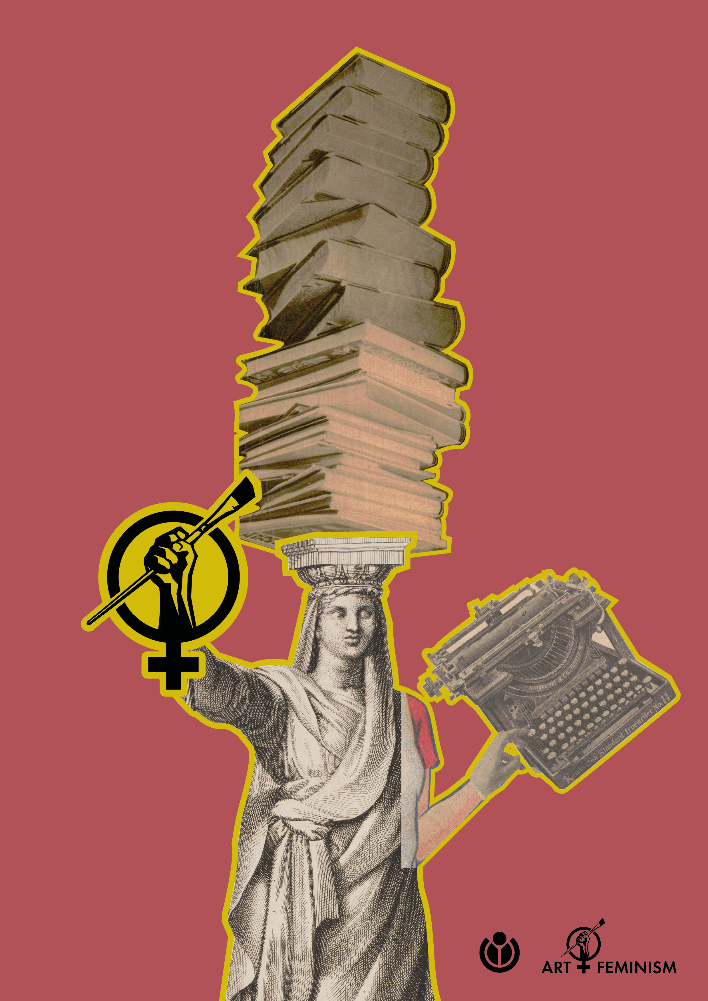 The collage (by Karolina Dzimira-Zarzycka) was based on elements from the public domain, located in the National Library collection and available on the Polona portal.